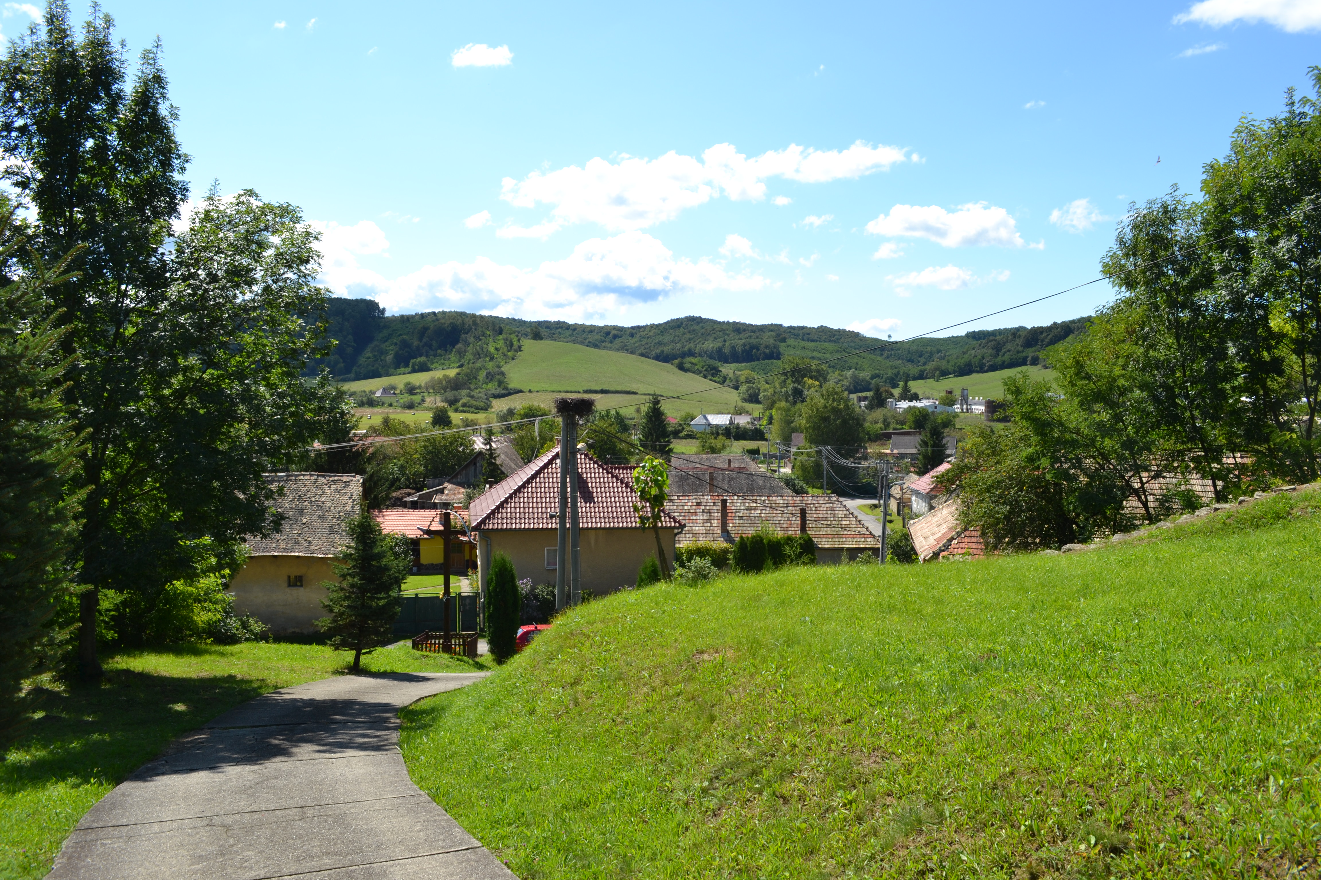 View of the village PlešSlovenčina: Pohľad na obec Pleš